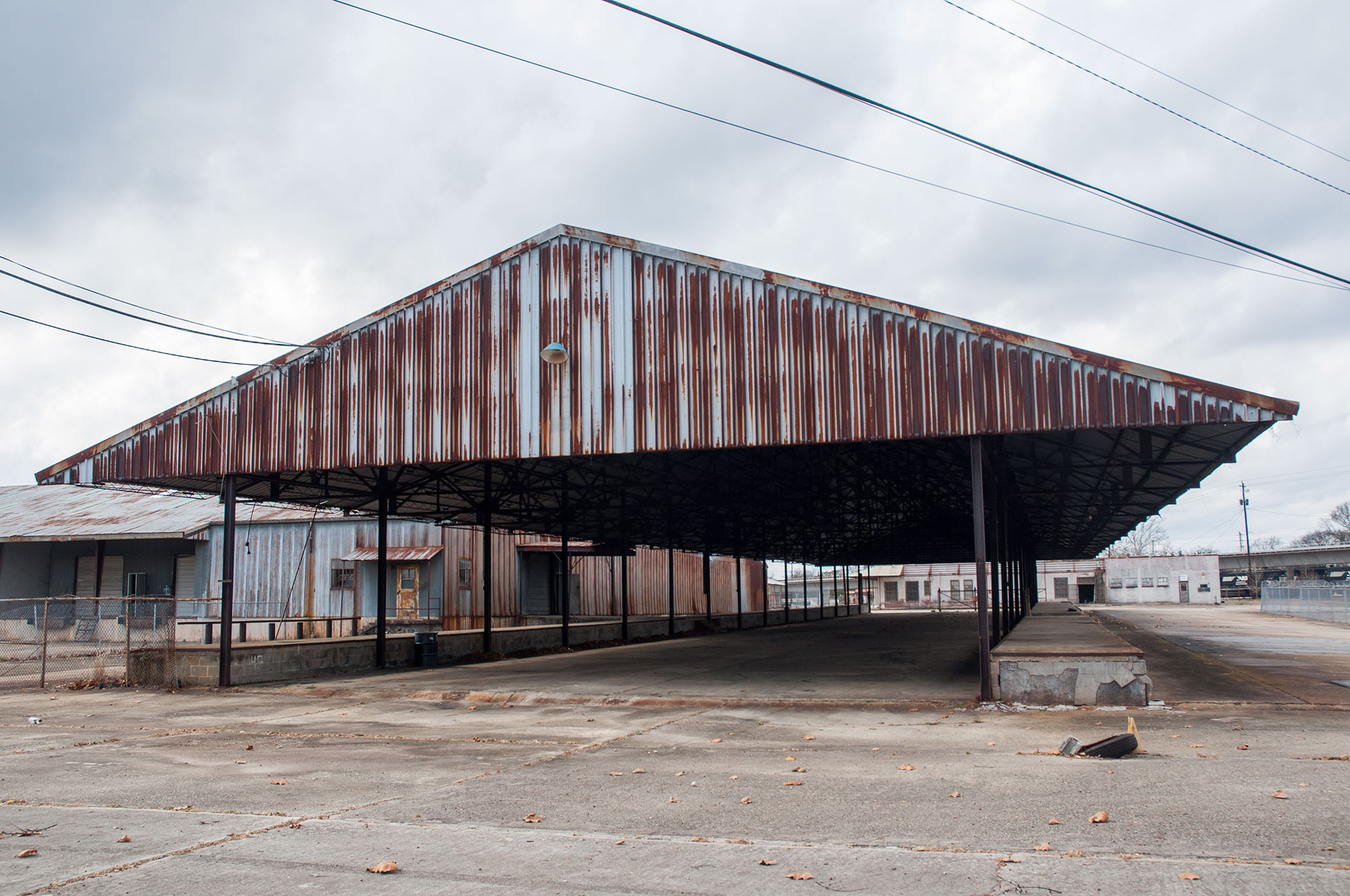 A shed at the old Atlanta Farmers' Market provided shelter to farmers' crops.